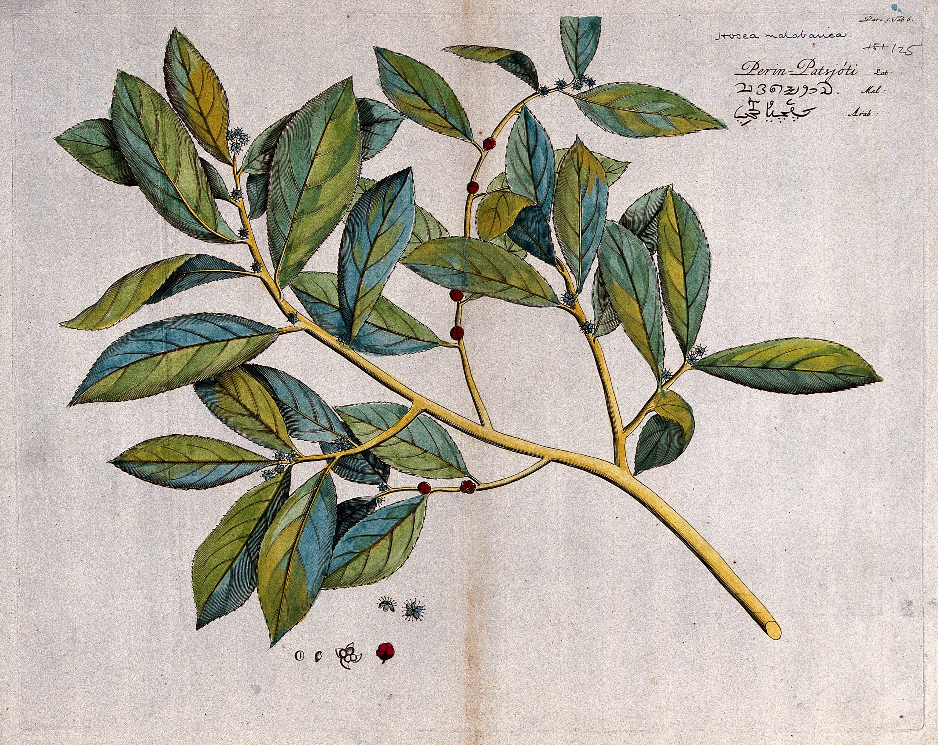 perin-patsjotti, Rheede, Hortus Malabaricus, vol. 5:11, tab. 6 Symplocos monantha: branch with flowers and fruit, separate flowers and fruit and cross-section of fruit and seed. Coloured line engraving. Iconographic Collections Keywords: engravings; botany - pre-linnaean works; Hendrik Adriaan van Reede tot Drakestein; Verbenaceae; botany - india - malabar coast; scientific illustrations